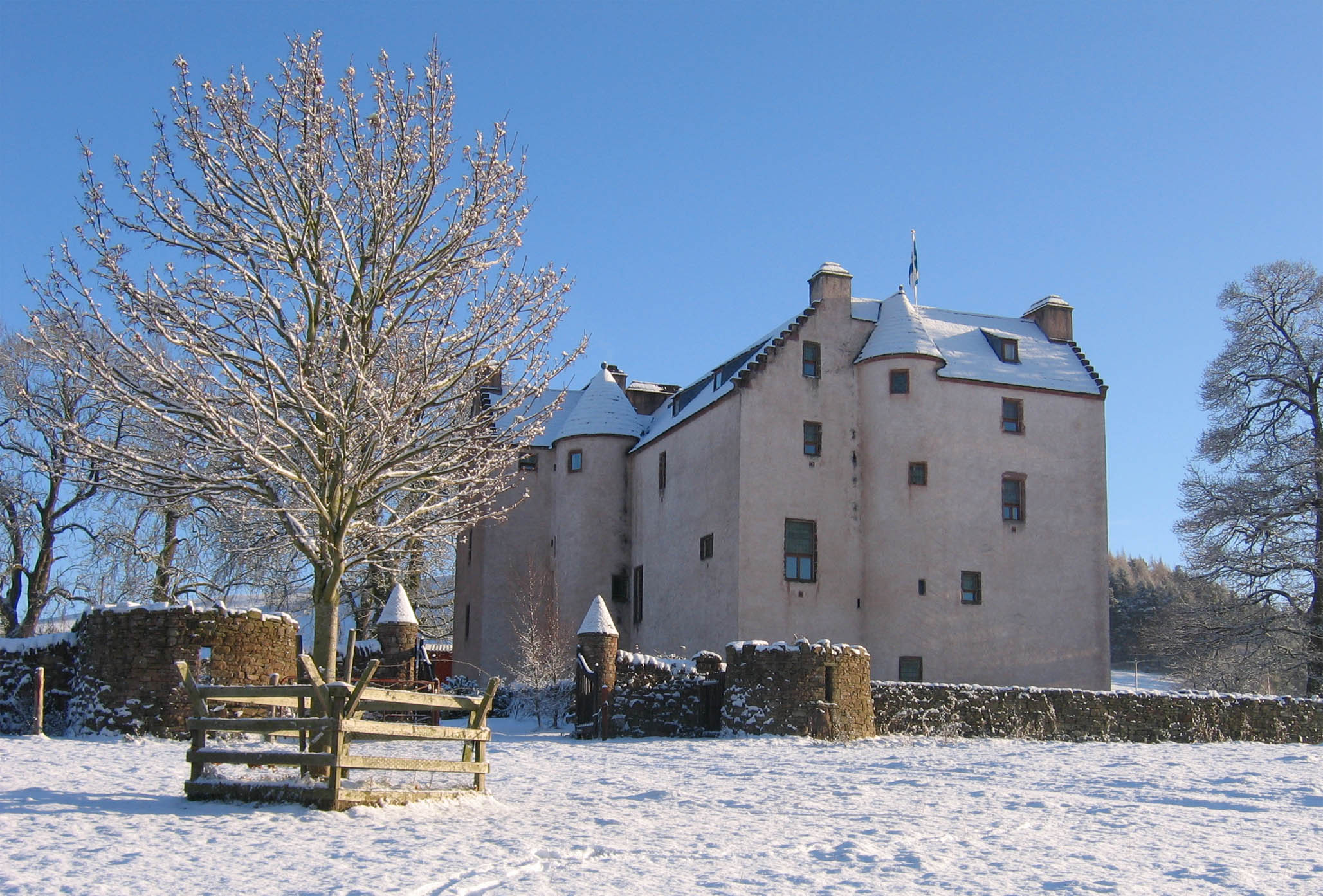 Hatton Castle in the Snow